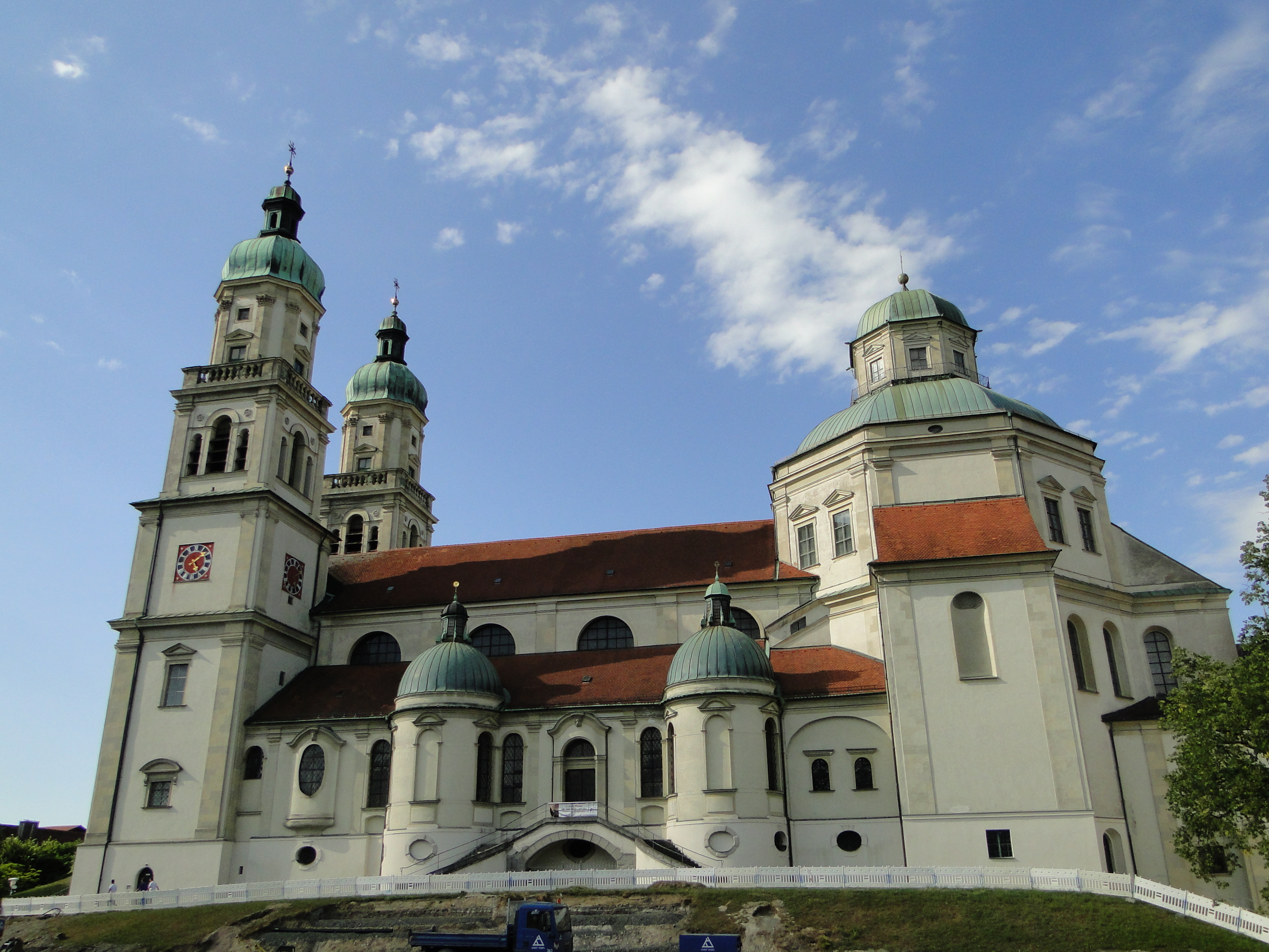 Church of St. Lorenz in Kempten (Bavaria, Germany)